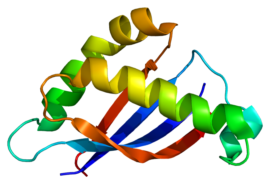 Structure of the MUC1 protein. Based on PyMOL rendering of PDB 2acm.